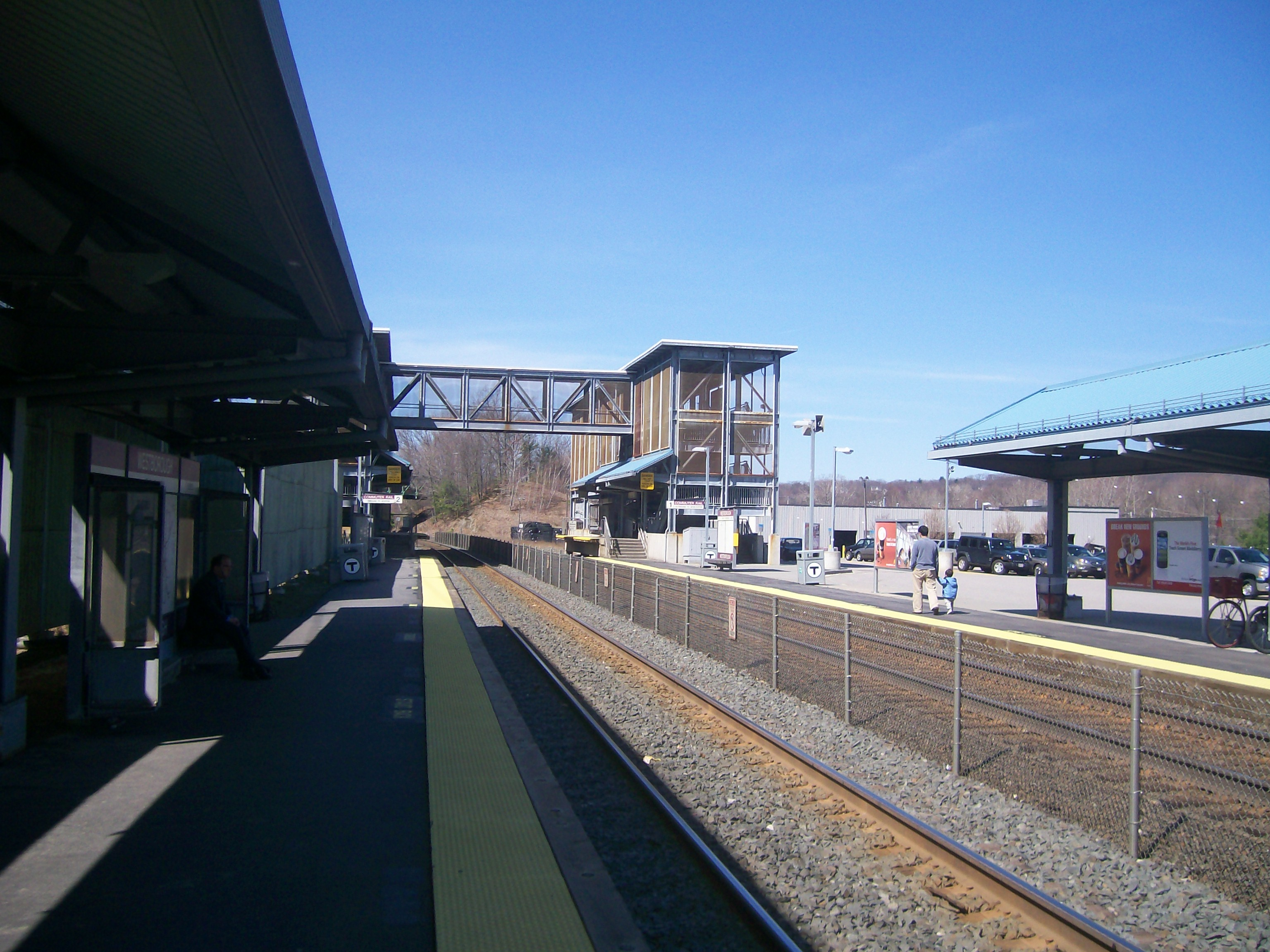 The MBTA Commuter Rail station at Westborough, Massachusetts, pictured in April 2009, viewed from the "Inbound" platform.